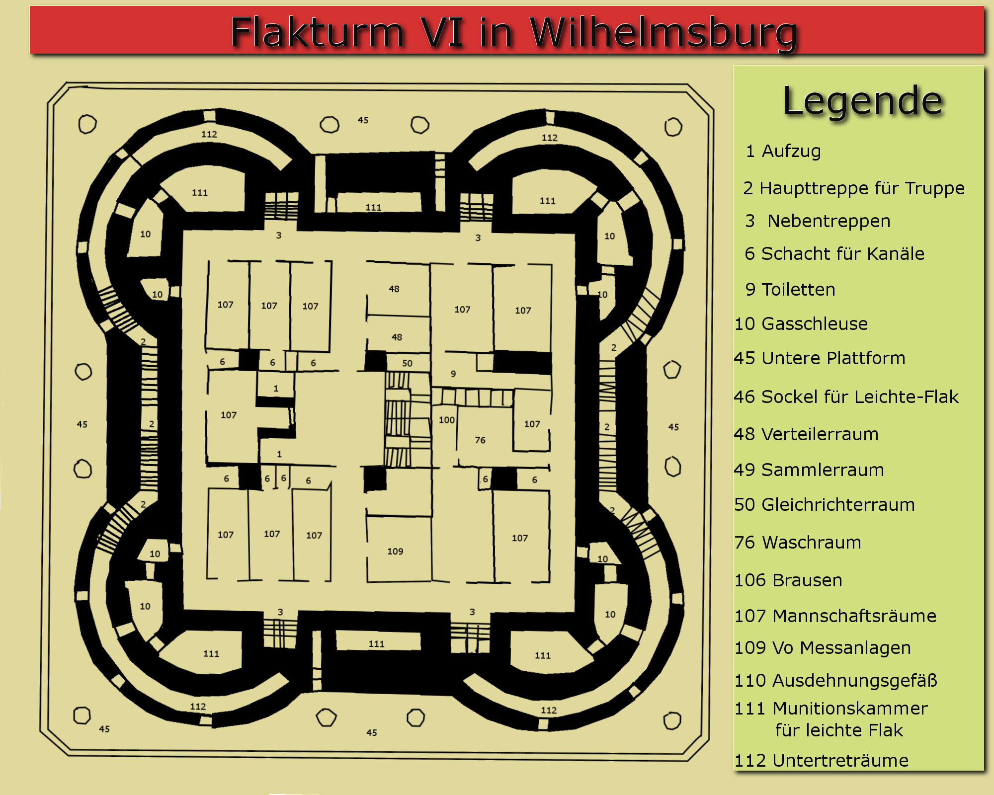 Hamburg (Hamburg-Wilhelmsburg), Germany: Floorplan of Flak tower n°VI